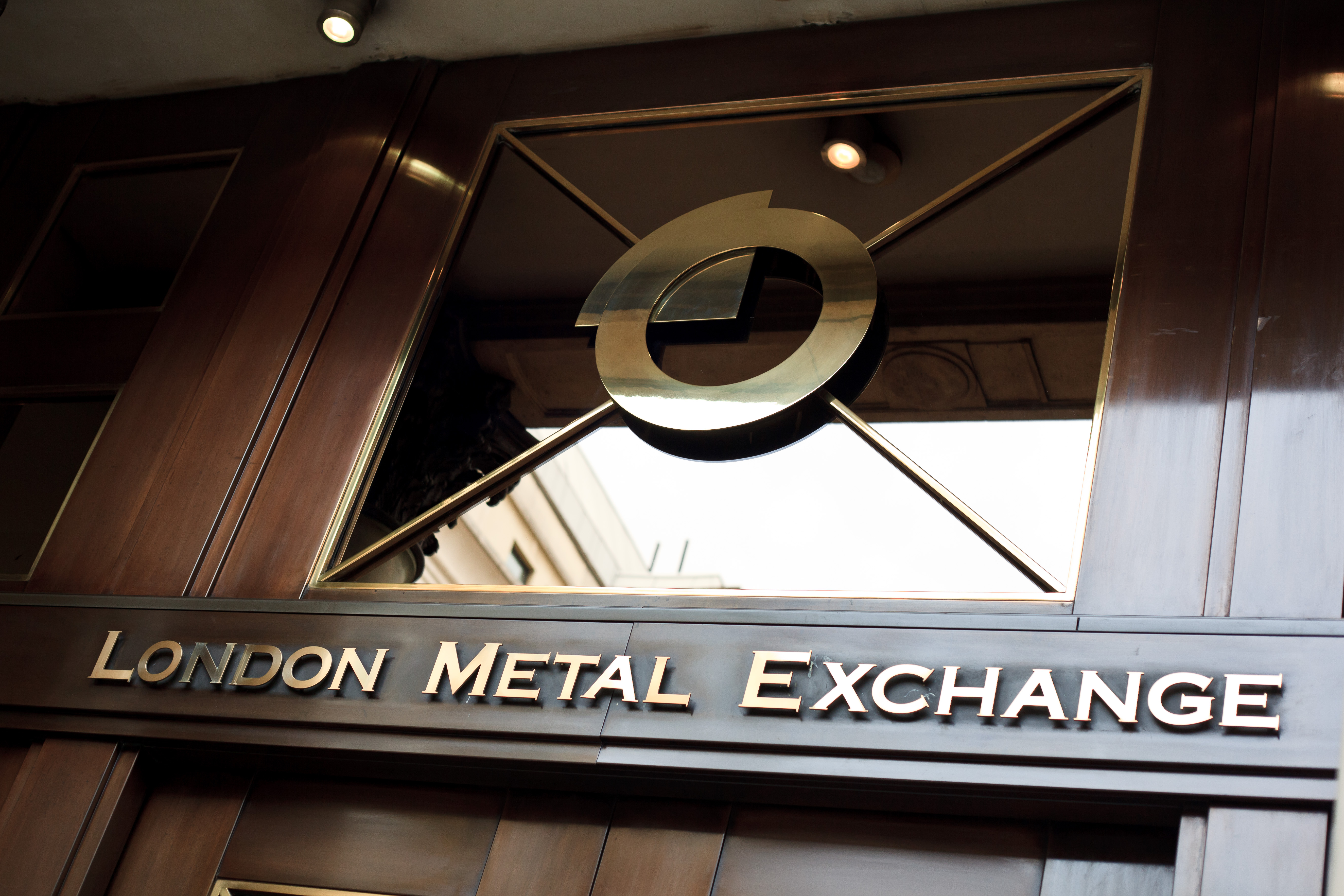 Sign above the main entrance to the London Metal Exchange